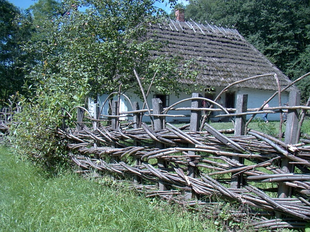 A fence at Sanok-Skansen outdoor museum in Poland